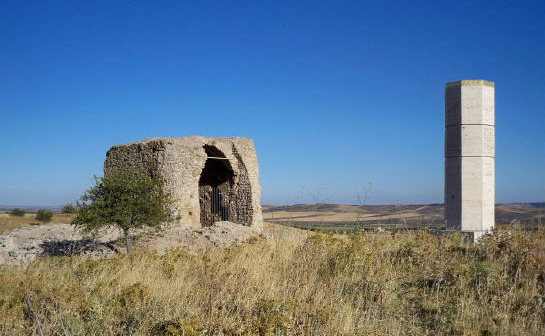 Castel Fiorentino near Torremaggiore (Apulia, Italy) — Staufer stela, inaugurated in December 2000